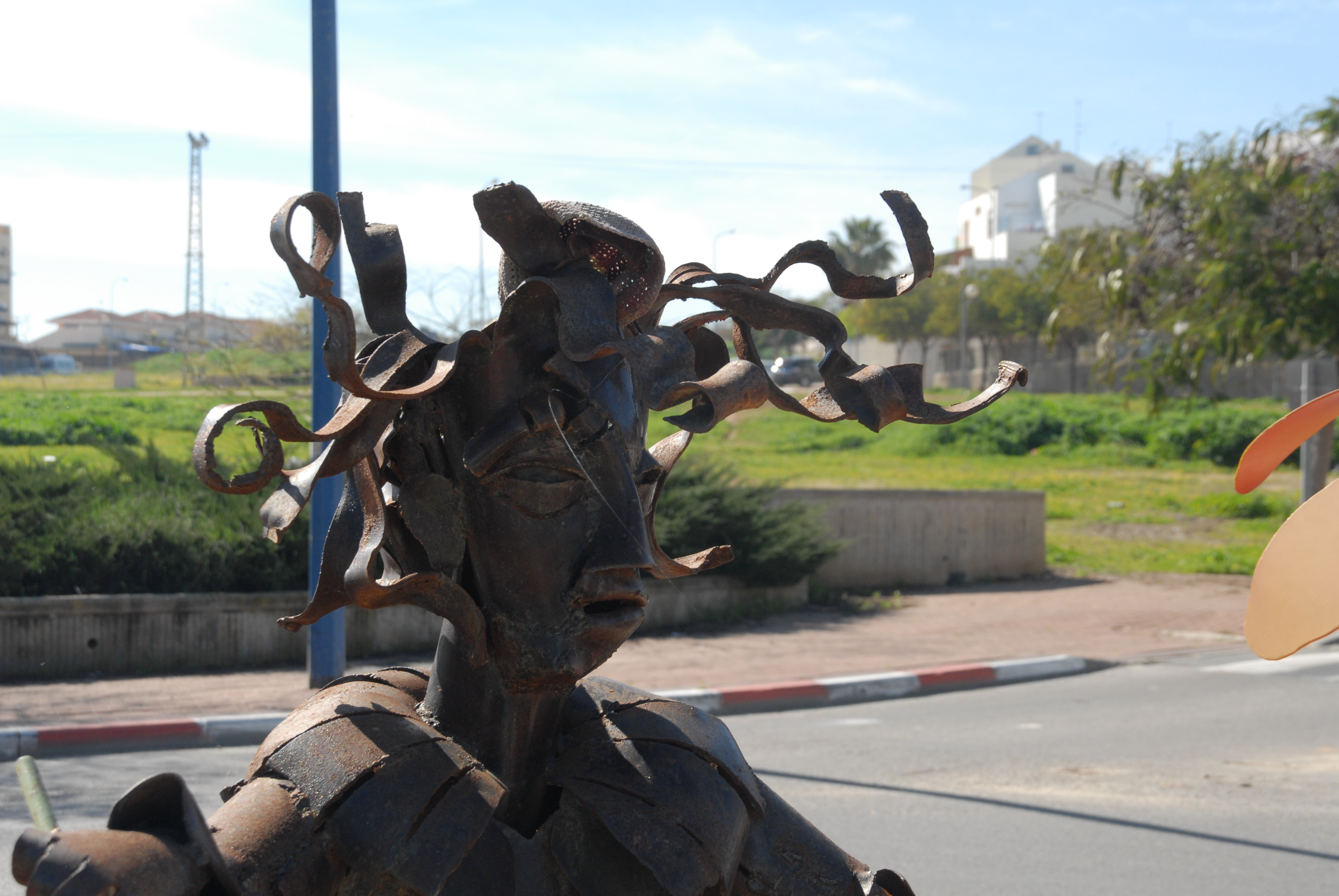 A sculpture said to have been made from rocket debris.